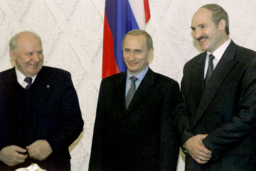 MINSK. Signing joint agreements after a meeting of the Supreme State Council of the Union State of Russia and Belarus. President Putin with Belarusian President Alexander Lukashenko and Federation Council Speaker Yegor Stroyev.